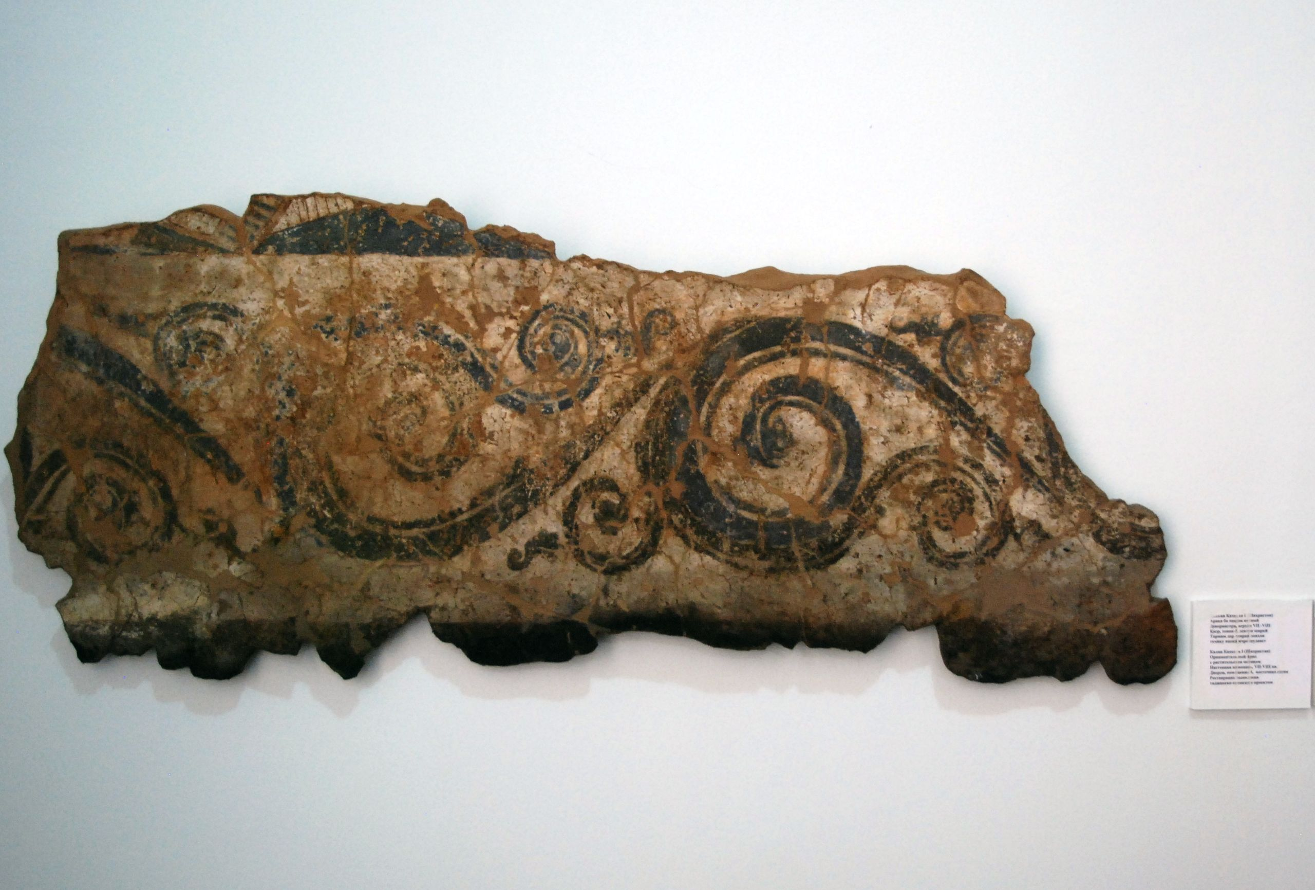 Bunjikat, Kala-i Kahkaha, National Museum of Antiquities, Dushanbe